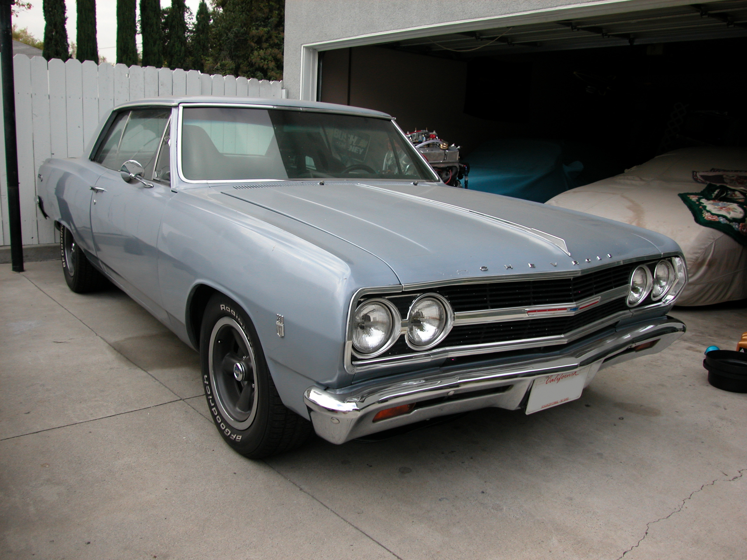 1965 Chevrolet Chevelle. Camera used was a Nikon Coolpix 5000.